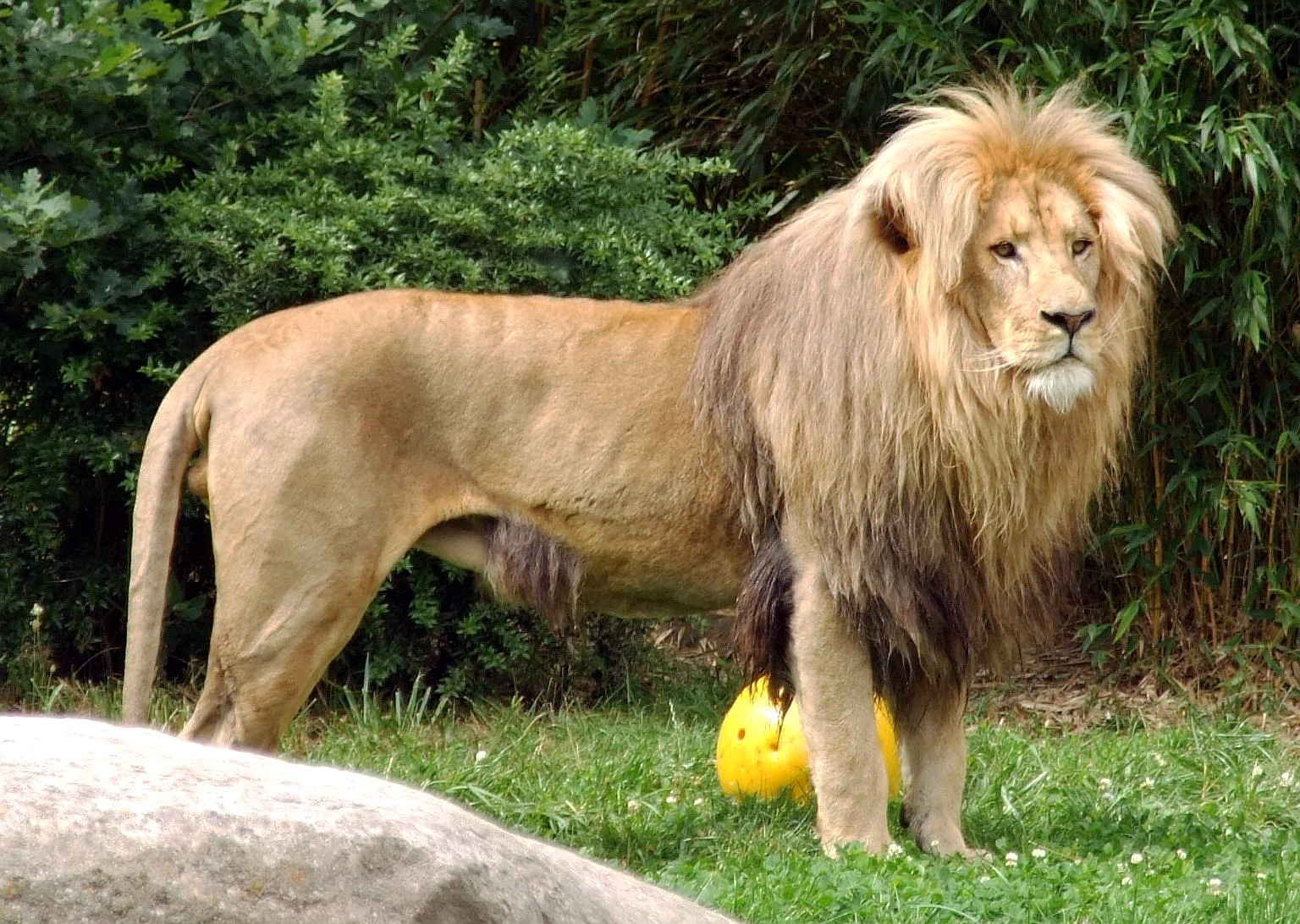 Katanga lion "Matadi" (* 28. September 2001 in Jardim Zoológico de Lisboa/Portugal) in the Leipzig Zoo, playing.